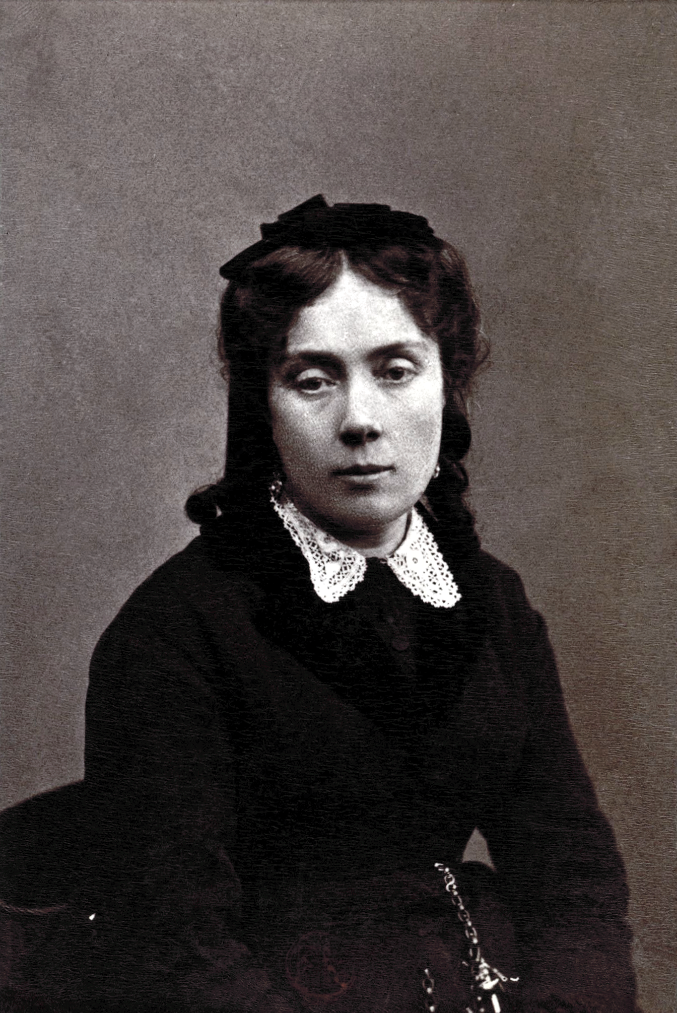 Photograph of Joséphine-Louise Fourès (1834–1891), bookseller and schoolteacher, widow of French journalist and deputy Jean-Baptiste Millière by Nadar.